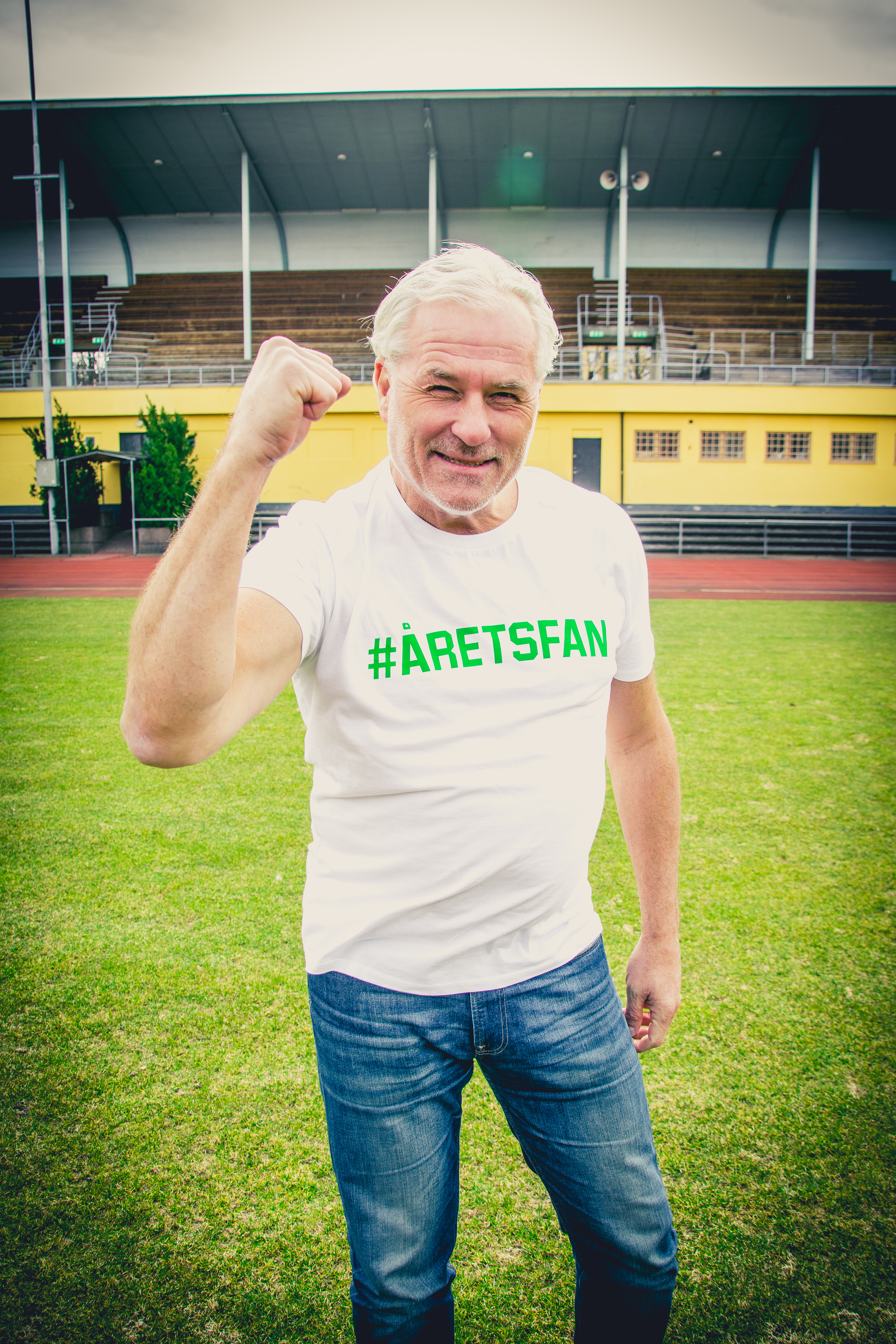 Former football player Glenn Hysén.